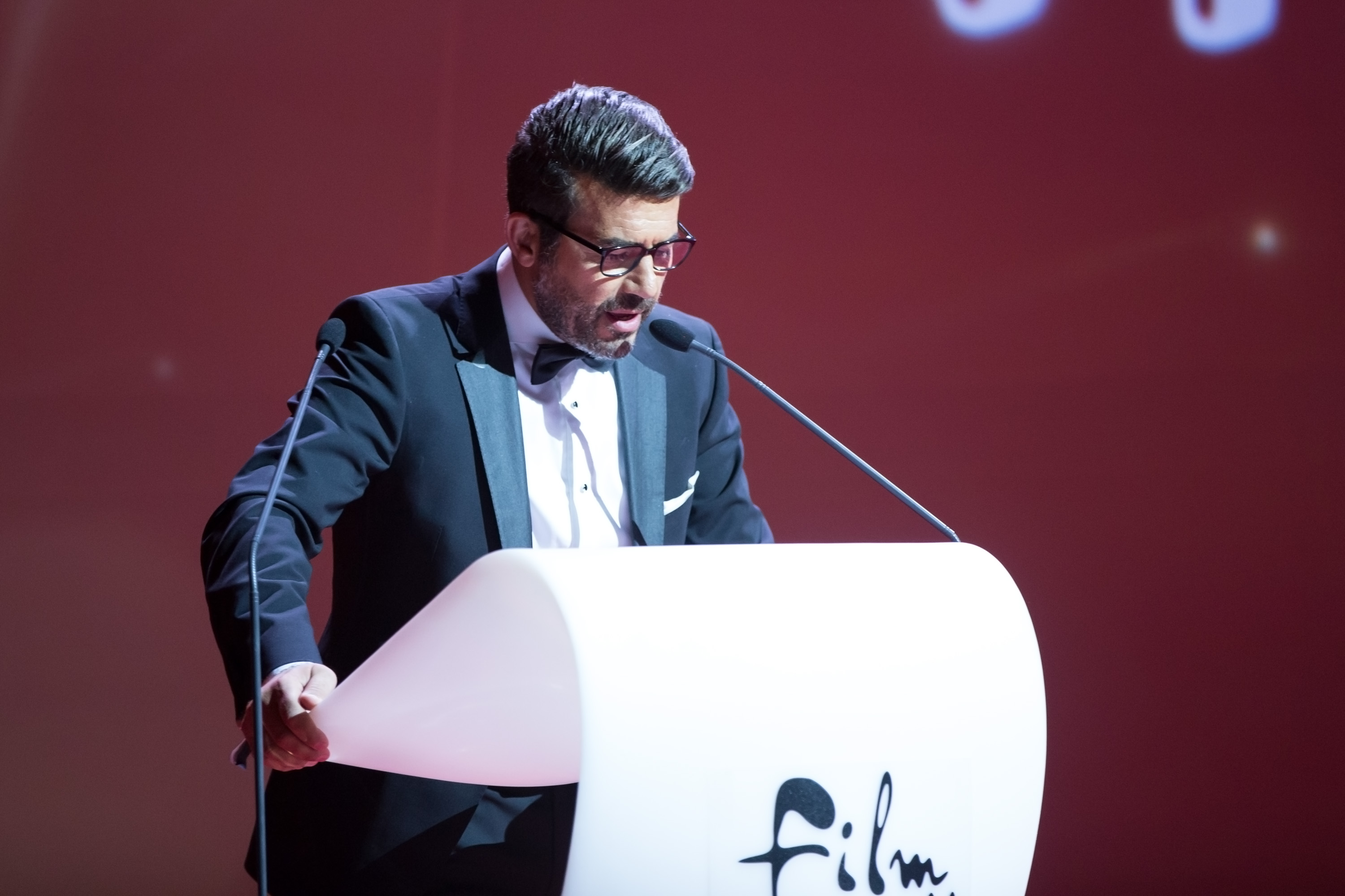 Oğuz Galeli during his laudation for Bülent Sharif, recieving the Vienna Film Award, at Filmball Vienna 2016 at Rathaus, Vienna, Austria.